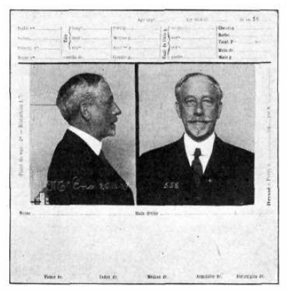 William Phelps Eno - honorary driver's license issued by A. Bertillon, Préfecture de Police, Nancy, France, 1912. Reproduced in Eno's The Science of Highway Traffic Regulation 1899-1920, published 1920. This drawing is in the public domain because it was first published in the United States before 1923.